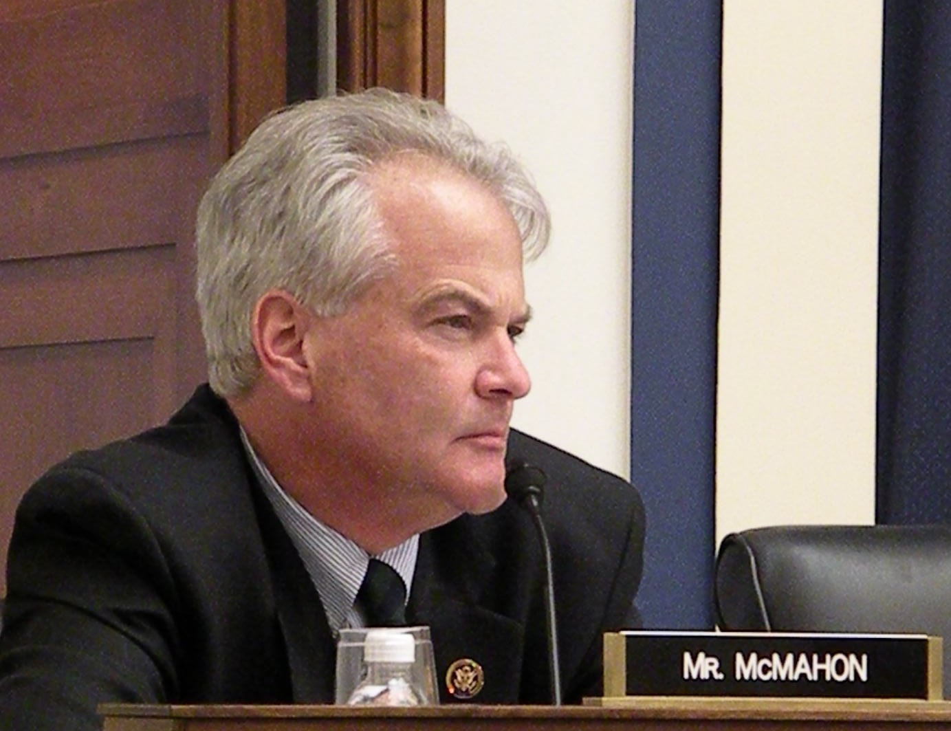 Michael McMahon, member of the United States House of Representatives